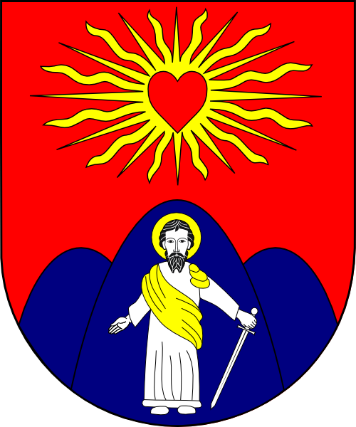 Coat of arms (shield only) of Pavol Jantausch, apostolic administrator of Trnava, Slovakia (1922 - 1947)